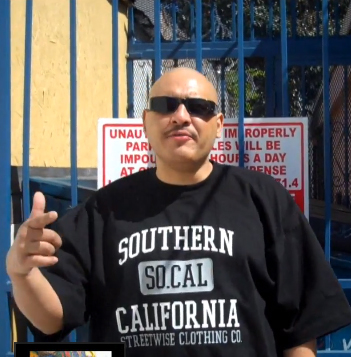 Frank V. of Proper Dos after his recording session with Serio in 2012.